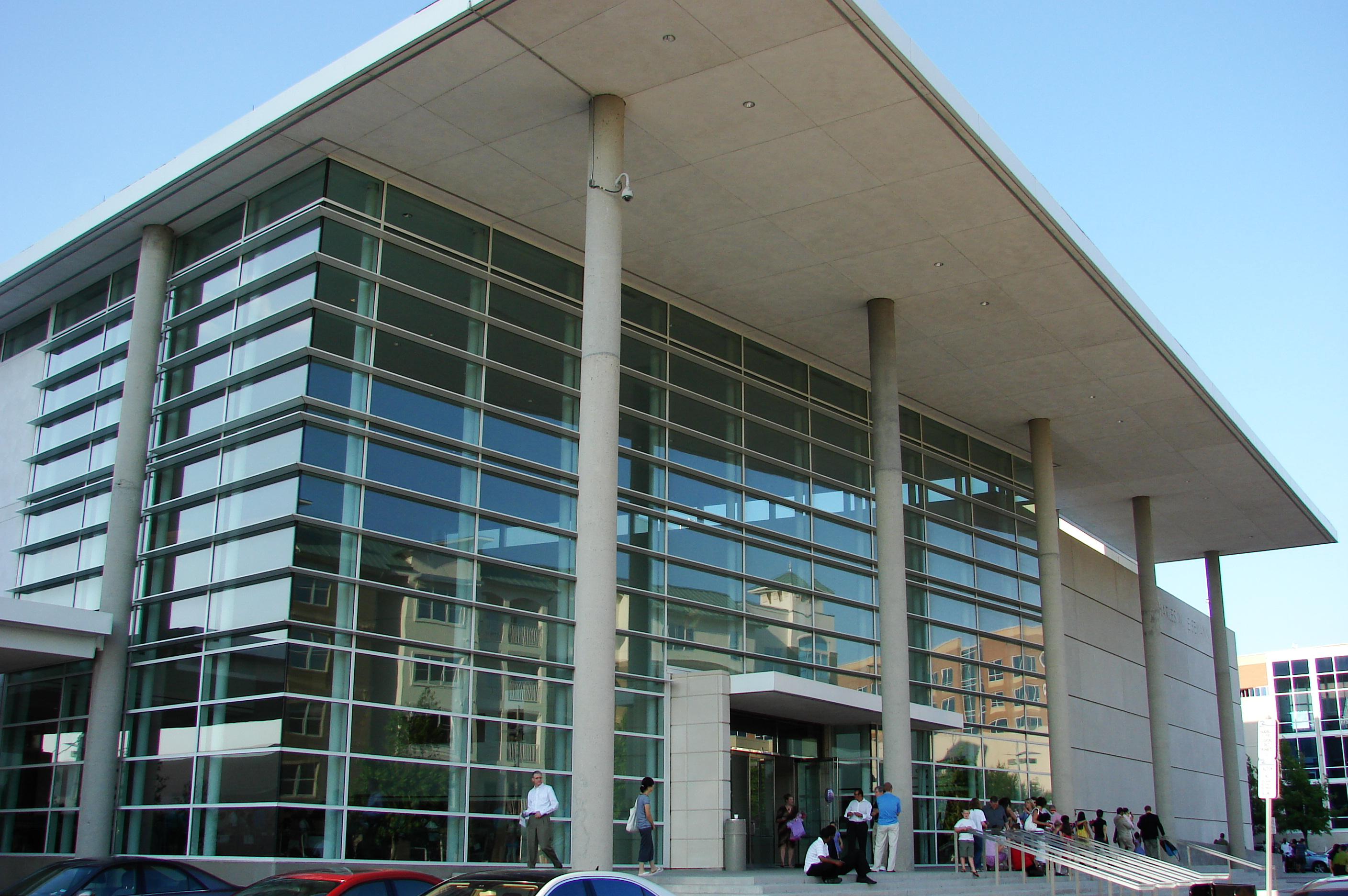 Charles W. Eisemann Center for Performing Arts in Richardson, Texas